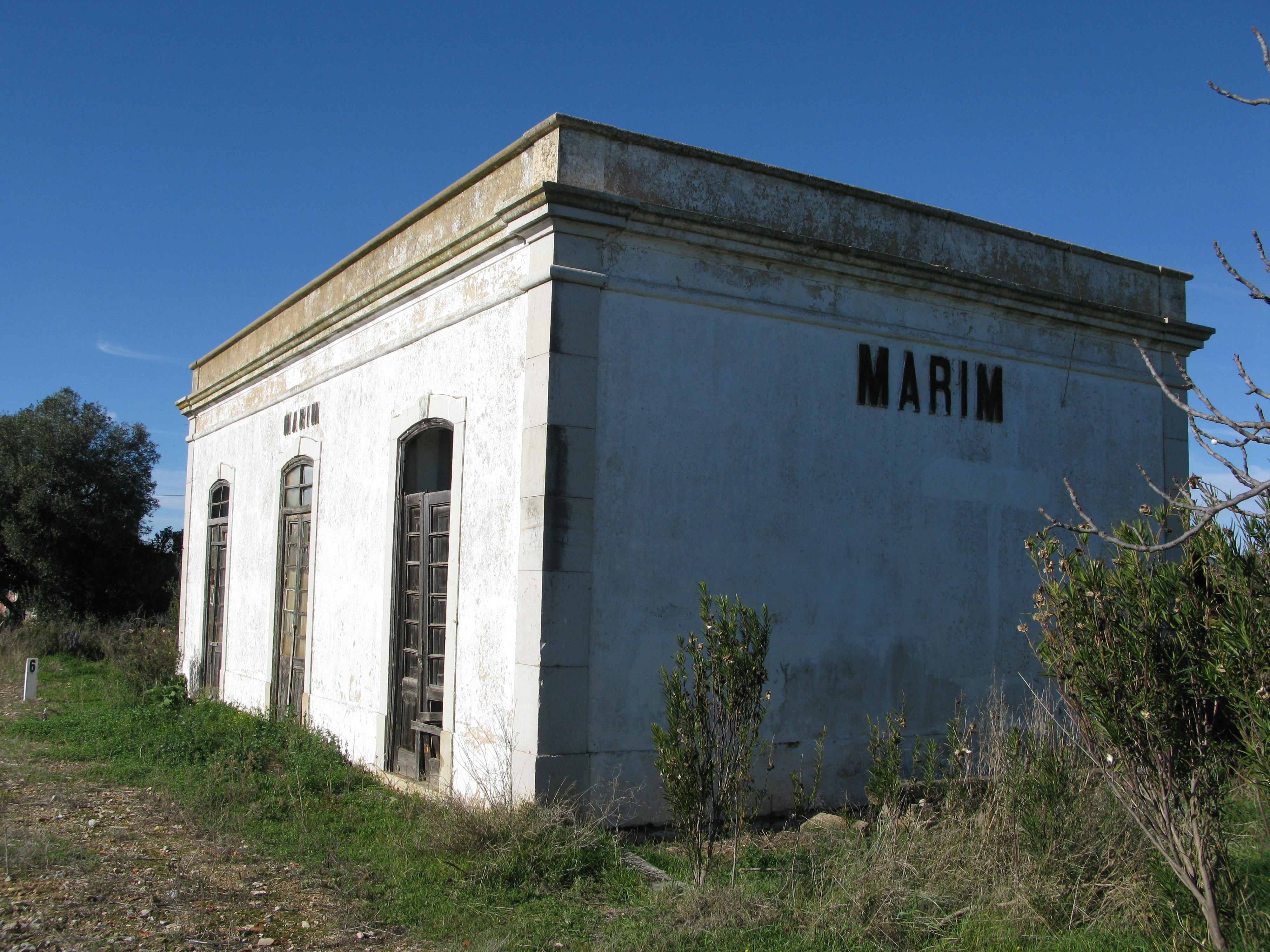 Marim halt on Algarve railway; close to Olhão, Portugal